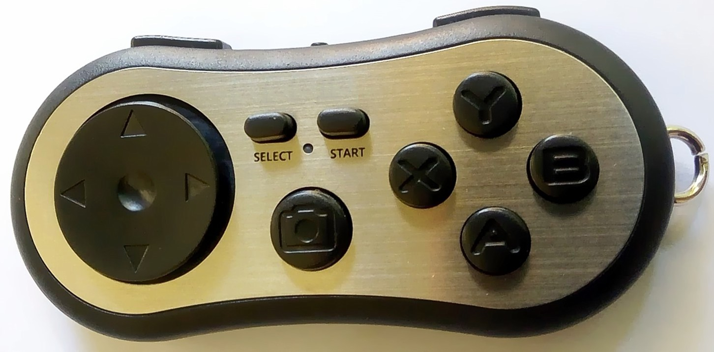 Bluetooth Gamepad for smartphones, which also acts as the navigation controller and media controller. Gamepad with 8-way D-pad and 9 buttons and start switch.